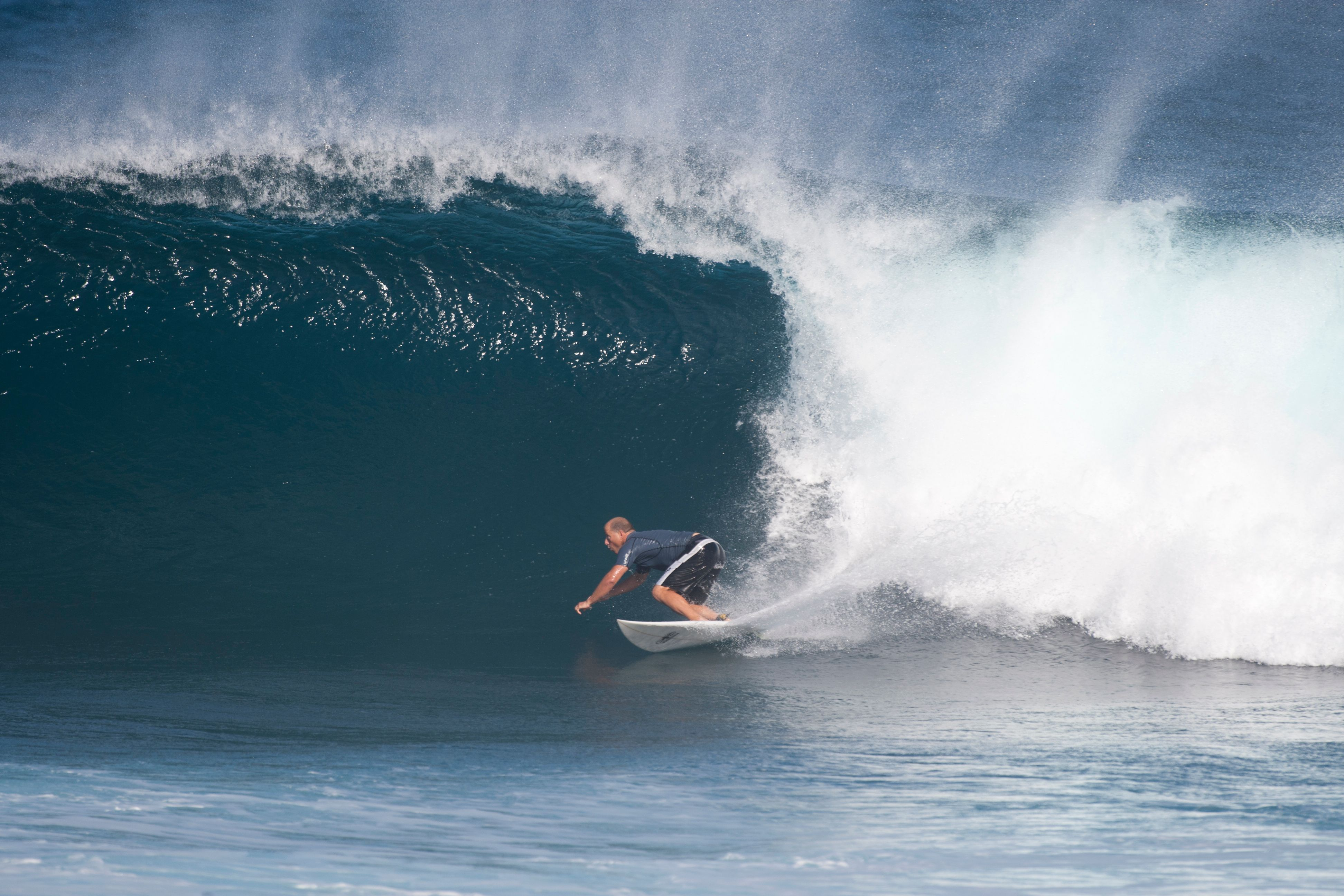 Antony Garrett Lisi surfing Ho'okipa, Maui, on January 13, 2012.